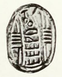 Scarab-seal of pharaoh Khamure, probable 14th Dynasty, 2nd intermediate period.